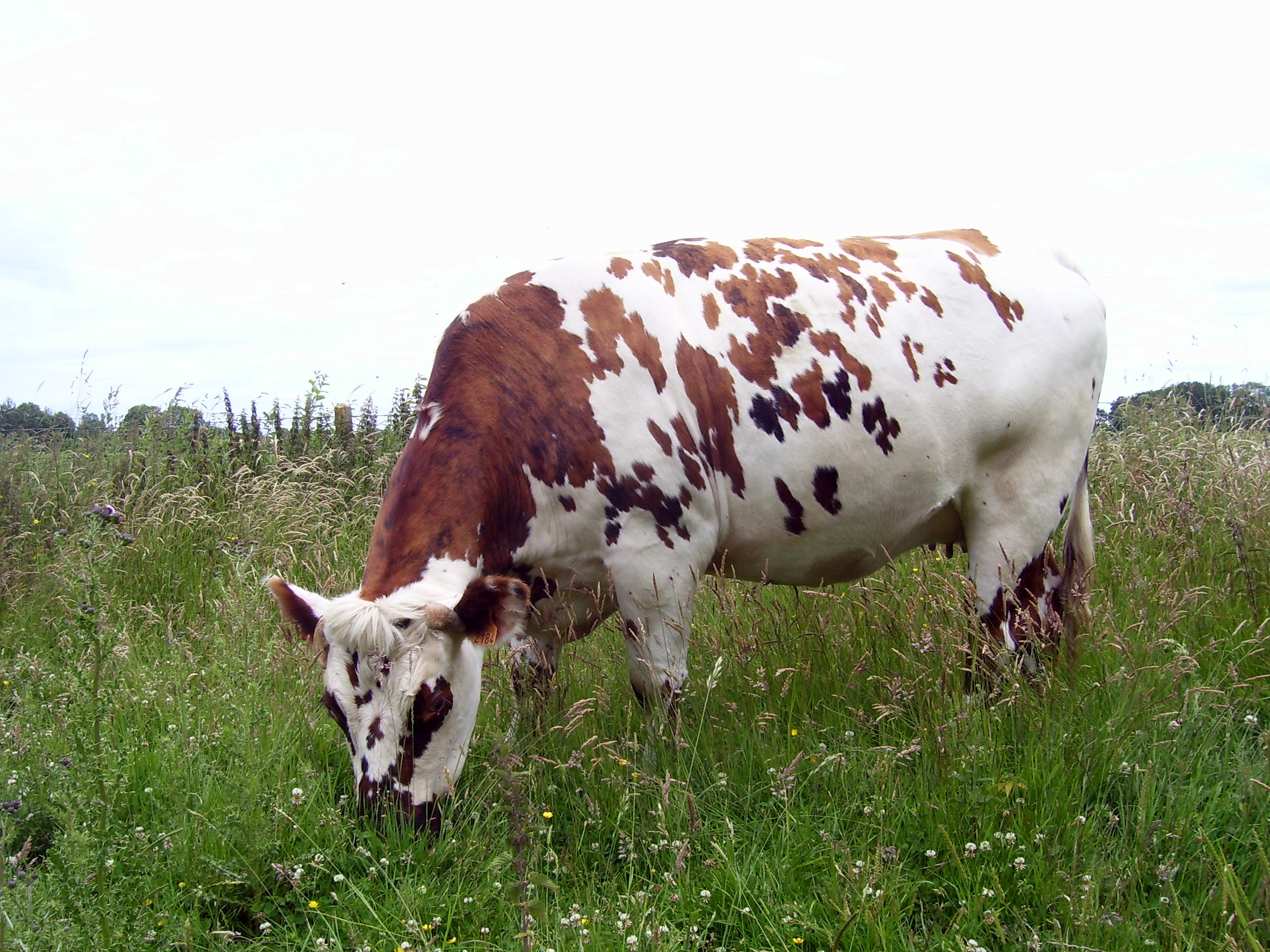 A Normande cow in Morsan (Eure, France).